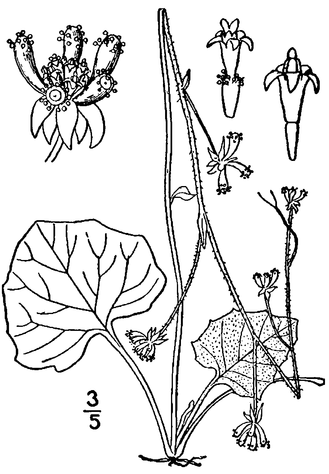 American Trailplant. Drawing.